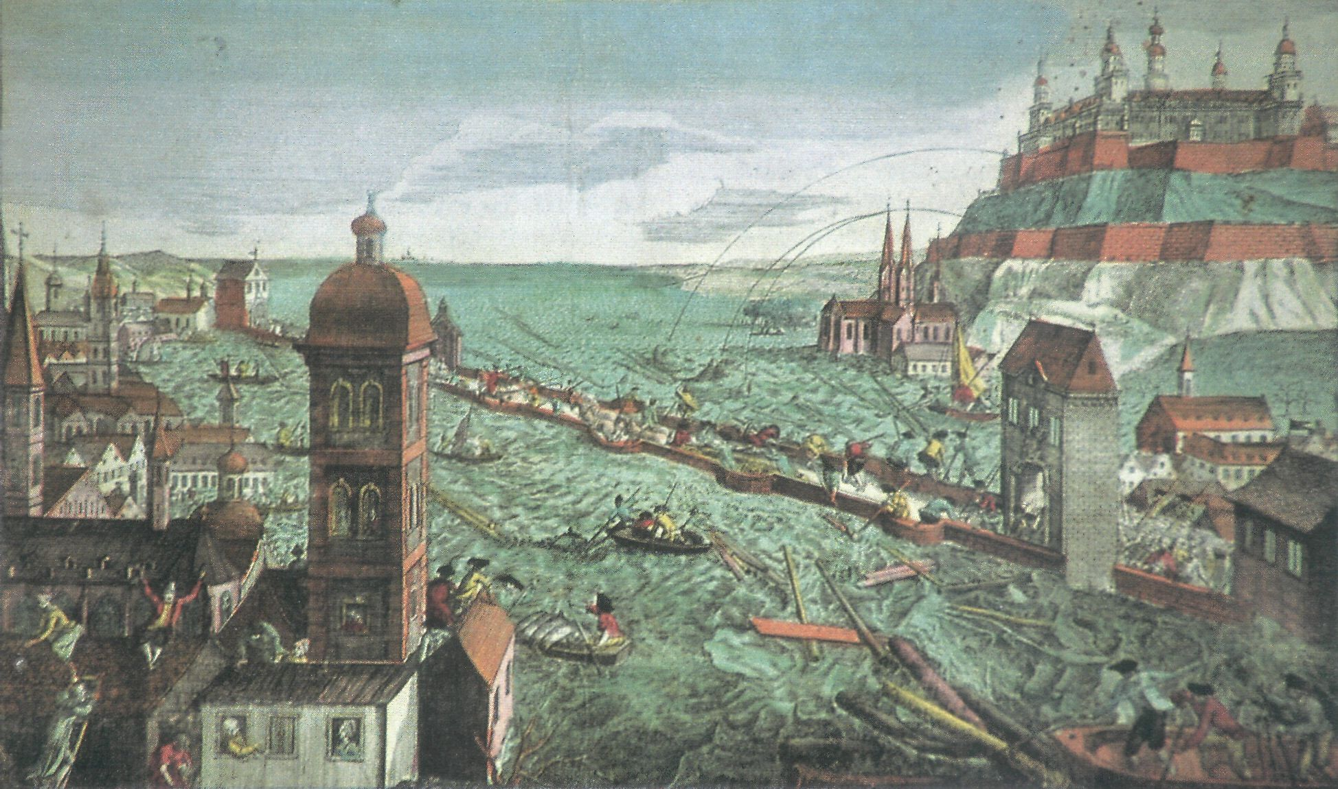 High water in Würzburg in 1784